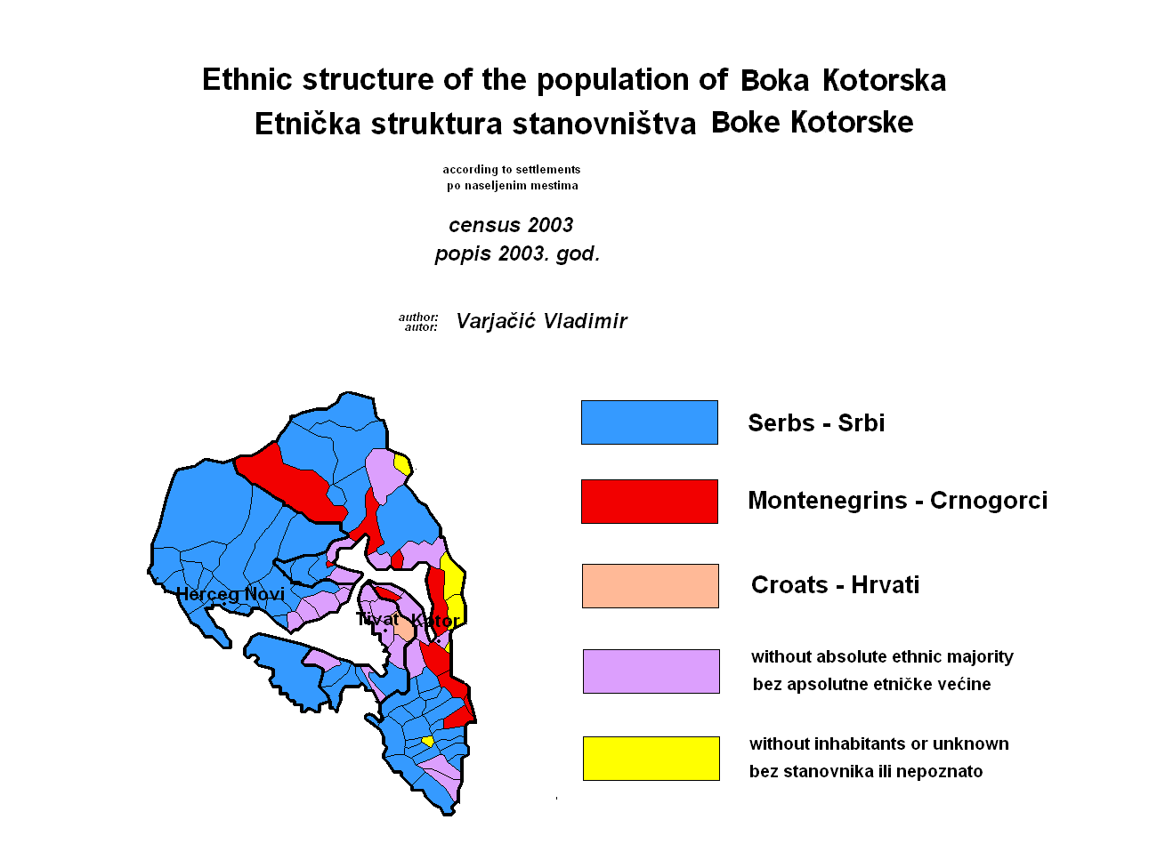 The region Boka Kotorska separated. Only change Montenegro overwrited with Boka Kotorska.